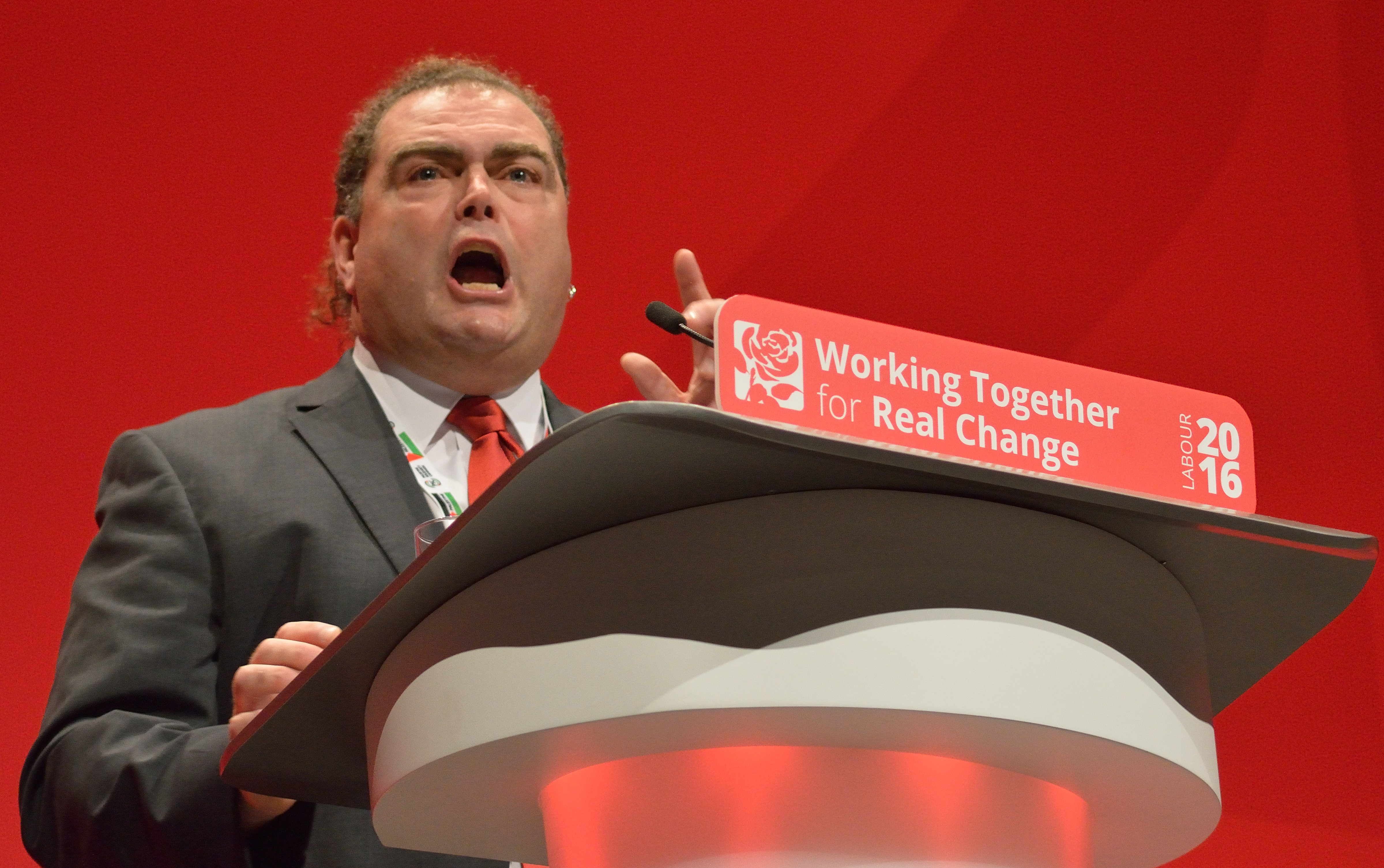 Manuel Cortés, General Secretary of the Transport Salaried Staffs' Association (TSSA), speaking at the 2016 Labour Party Conference in Liverpool.